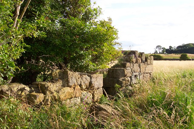 Kilspindie Castle, East Lothian All that's left of Kilspindie Castle is the base of a doorway with a length of wall that comes to an oval gun loop that's like 1600s style. Built by the powerful 'Red' Douglas family who had many towers and castles in the area. I must have walked past the ruins a number of times looking for it before I tripped over it. If it gets any more overgrown you won't be able to spot it at all.